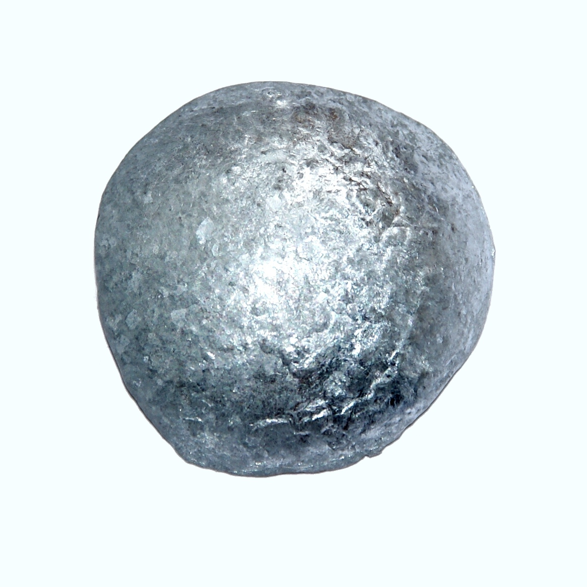 30 grams zinc, 3 cm in diameter.